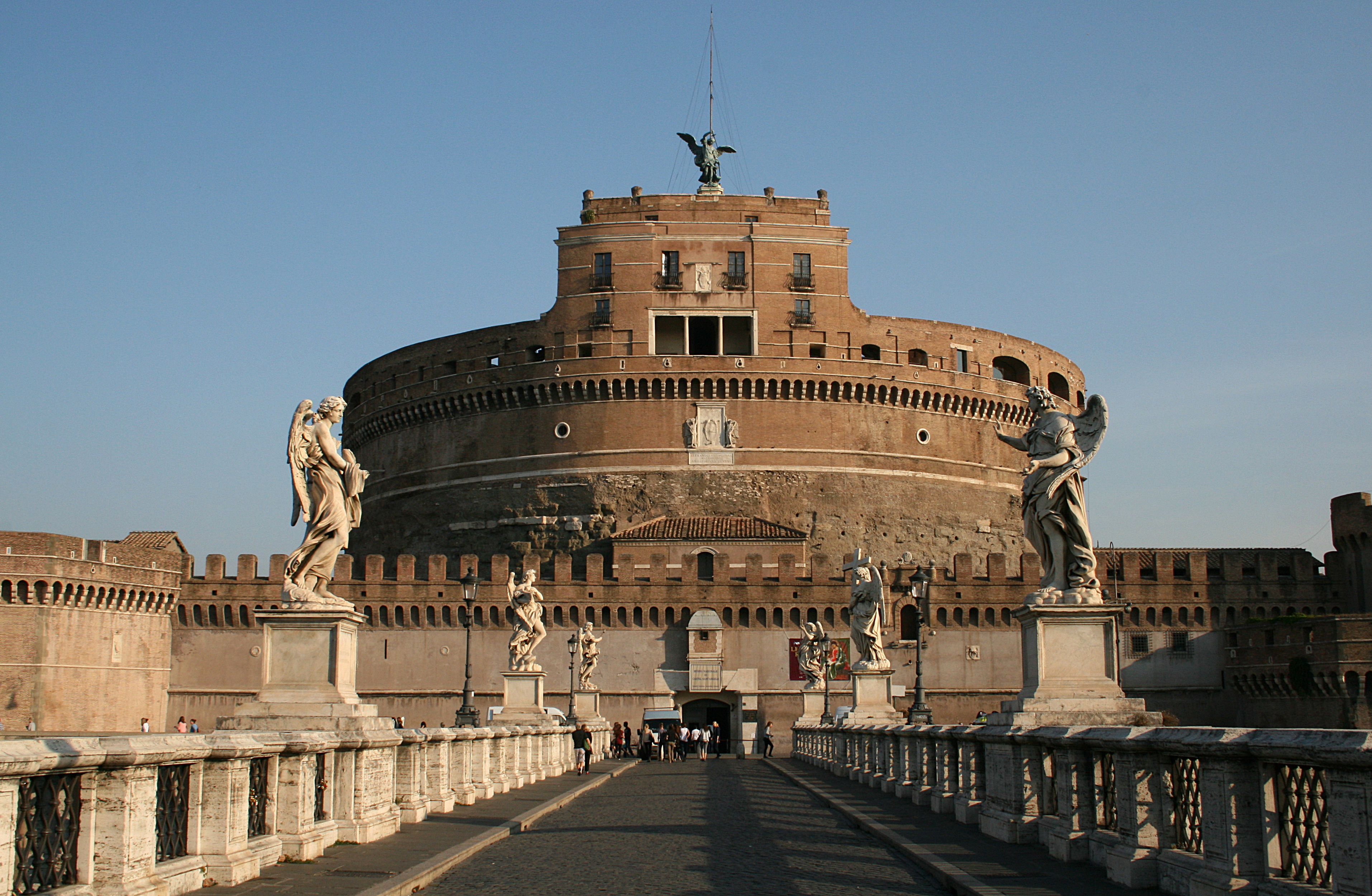 The bridge and the Castel Sant'Angelo in Rome, Italy.